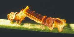 Caterpillar of Declana atronivea